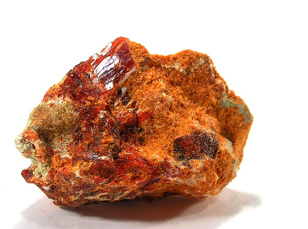 Botryogen, Butlerite, Copiapite, Parabutlerite Locality: Mina Santa Elena, Alcaparrosa, San Juan, Argentina Size: miniature, 5.7 x 4.1 x 2.5 cm Botryogen, Copiapite, Butlerite and Parabutlerite This specimen features a super red-colored crystal of 1.3 cm with one of the most lustrous faces of the lot, facing front. It is embedded in matrix of minutely crystallized Parabutlerite with other associated species.